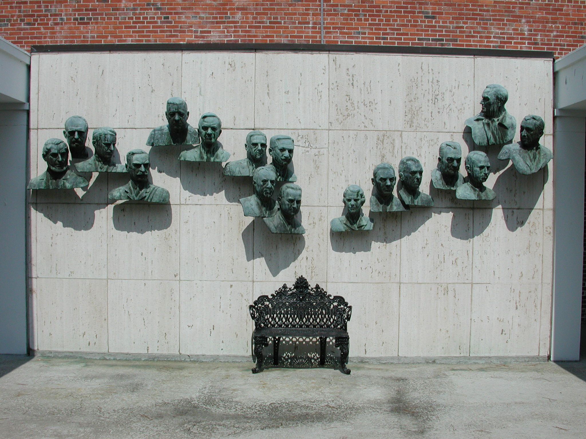 The bronze Busts in the Polio Hall of Fame